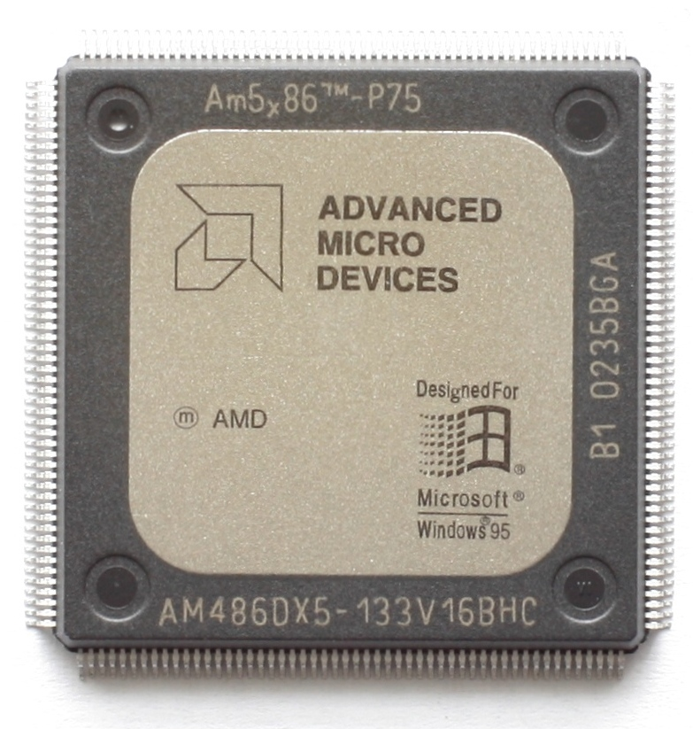 CPU AMD Am5x86-P75, PQFP.